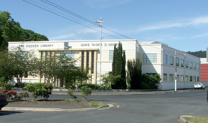 Hocken Library, Dunedin, New Zealand. Located in a former cheese factory.